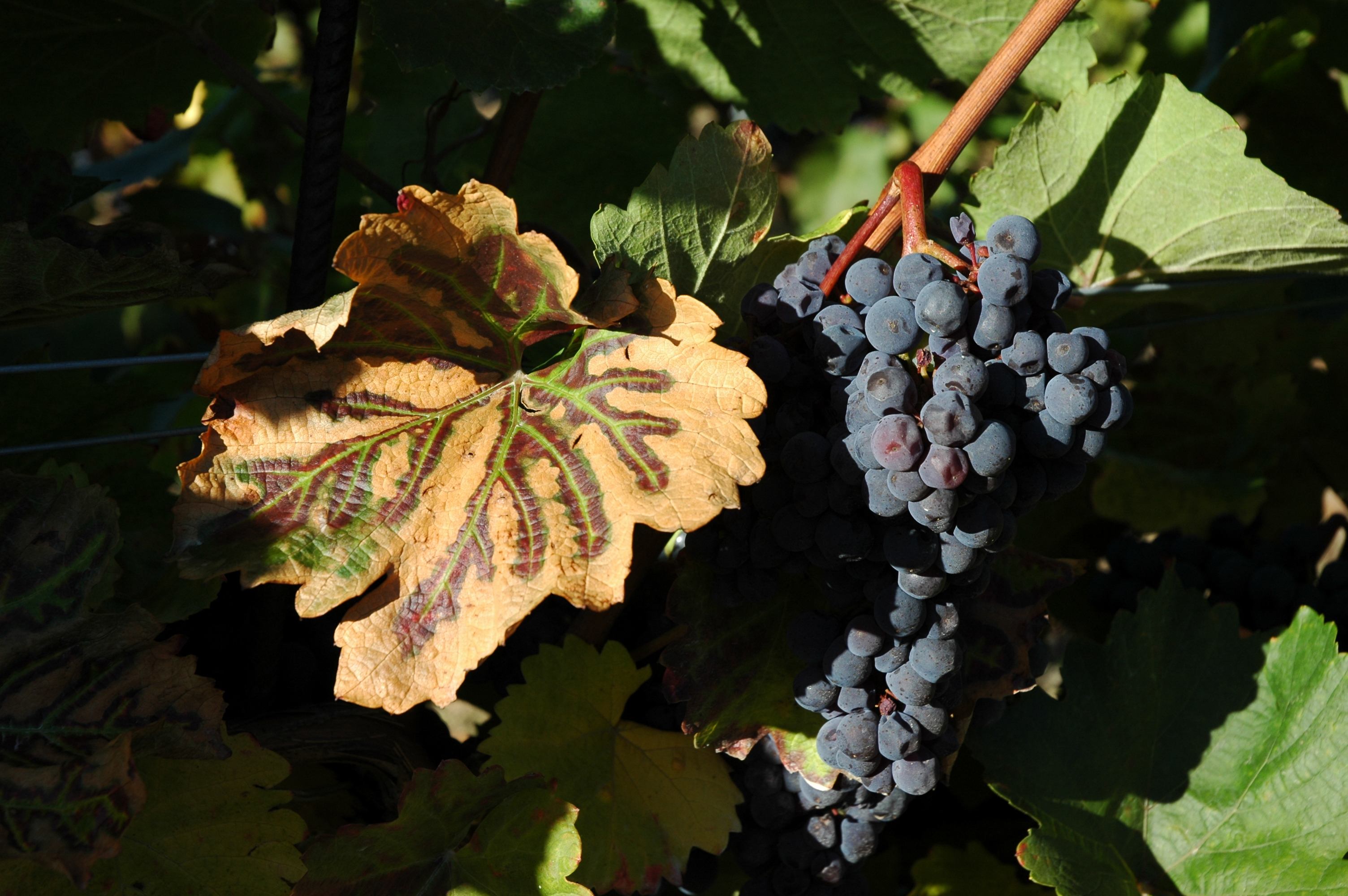 BTraubenwelke - Symptome am Blatt und Traube